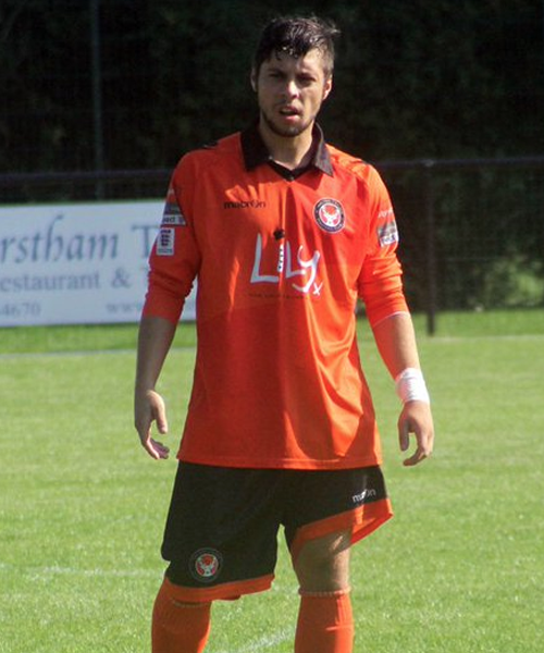 Christian Nanetti playing for Walton Casuals